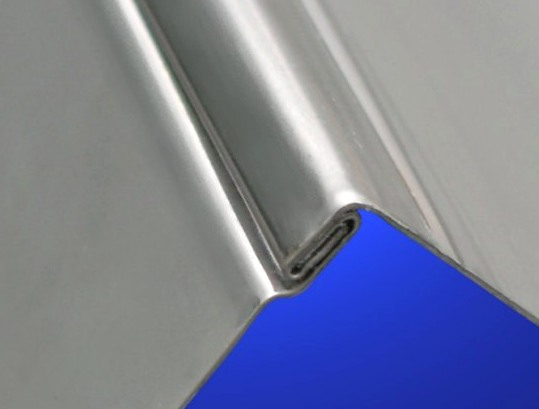 Duct Seam Joint